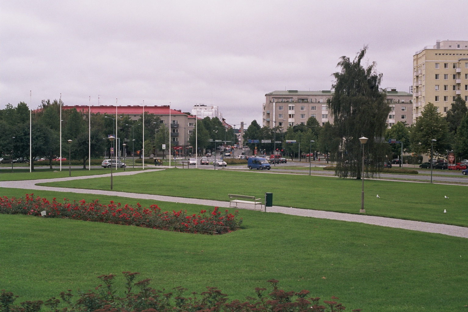 The crossing of the streets Sammonkatu, Kalevan Puistotie, Itsenäisyydenkatu (directly forward), and Teiskontie in Tampere, Finland. The photo taken in the Liisanpuisto park.